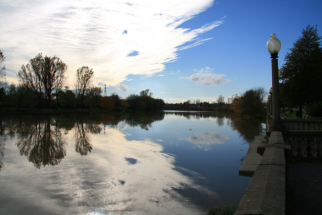 Saint-Hyacinthe, QC, Canada